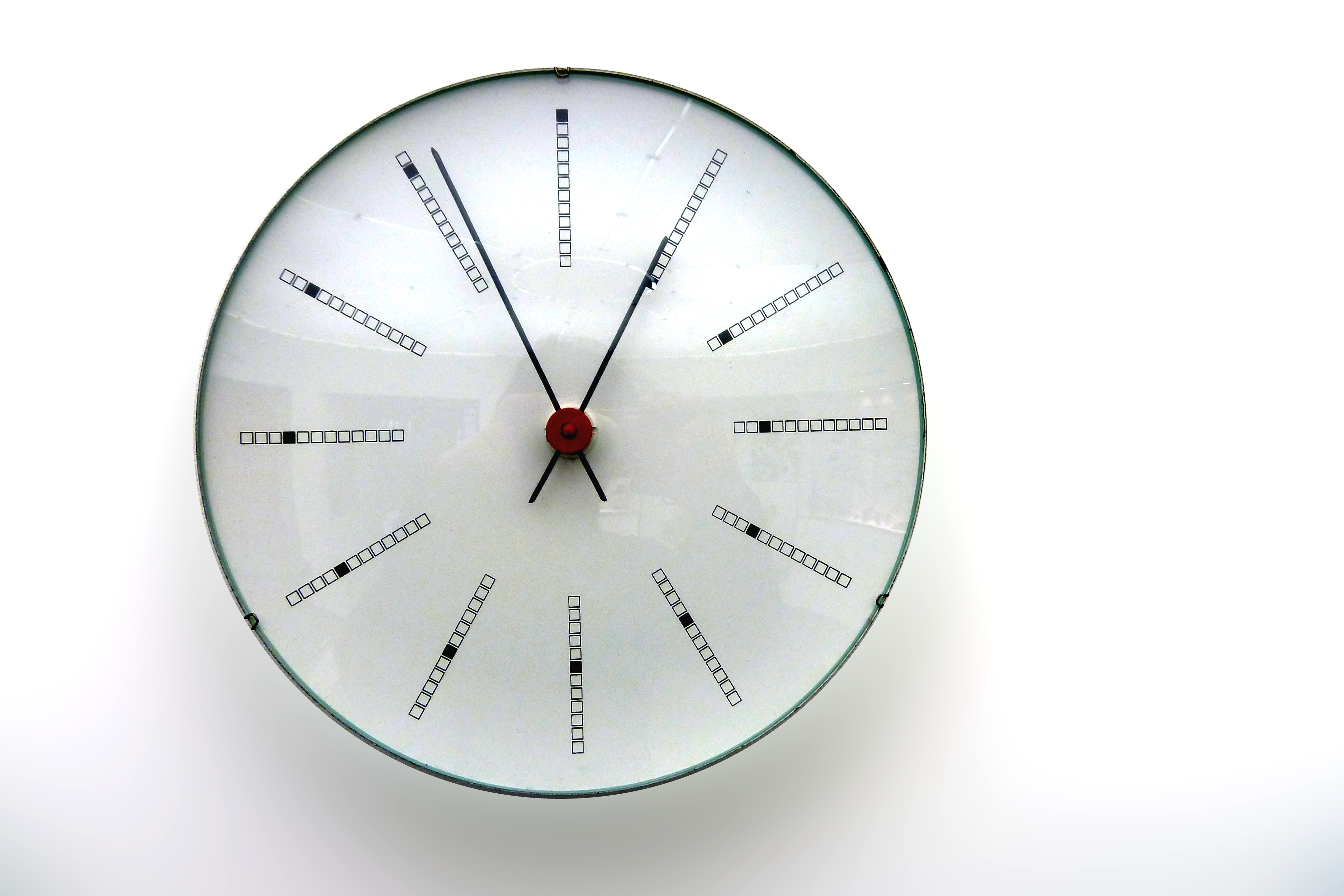 "Bankers" wall clock made for the Danish National Bank, 1970, by Arne Jacobsen, glass and metal, produced by Louis Poulsen